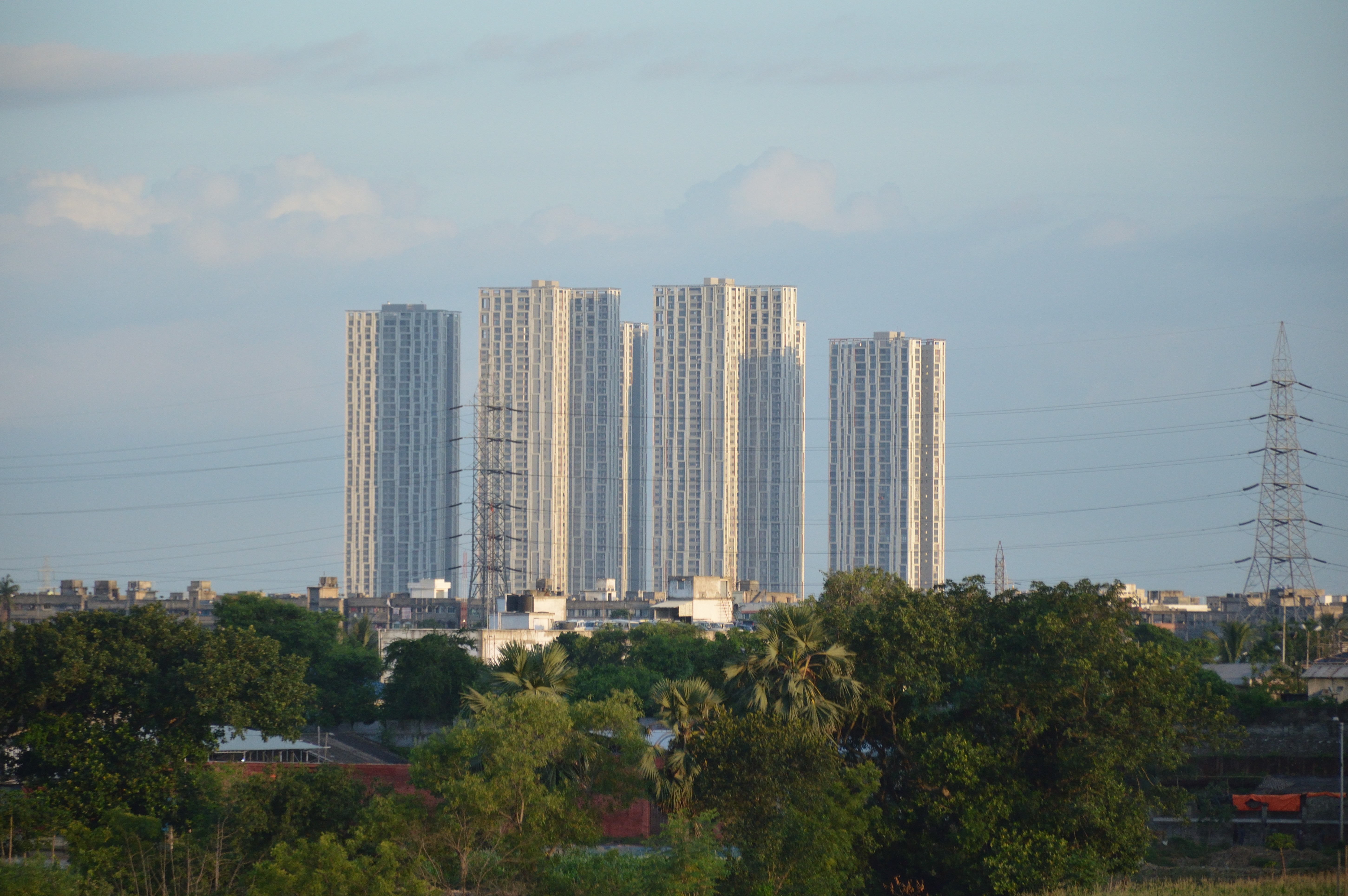 This photograph was taken in Kolkata.